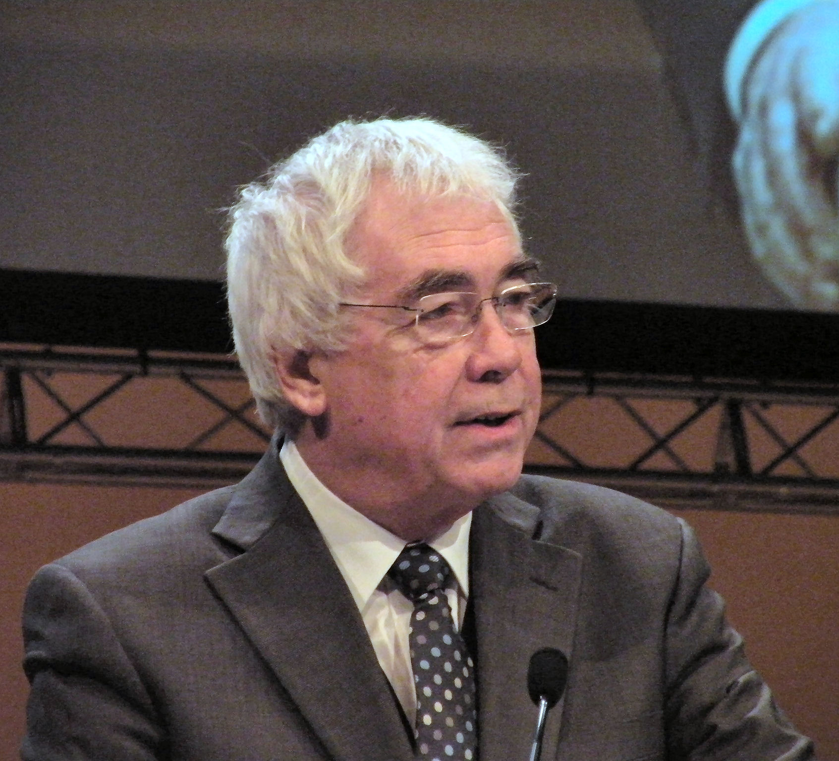 Phil Willis MP addressing a Liberal Democrat conference in the Harrogate International Centre